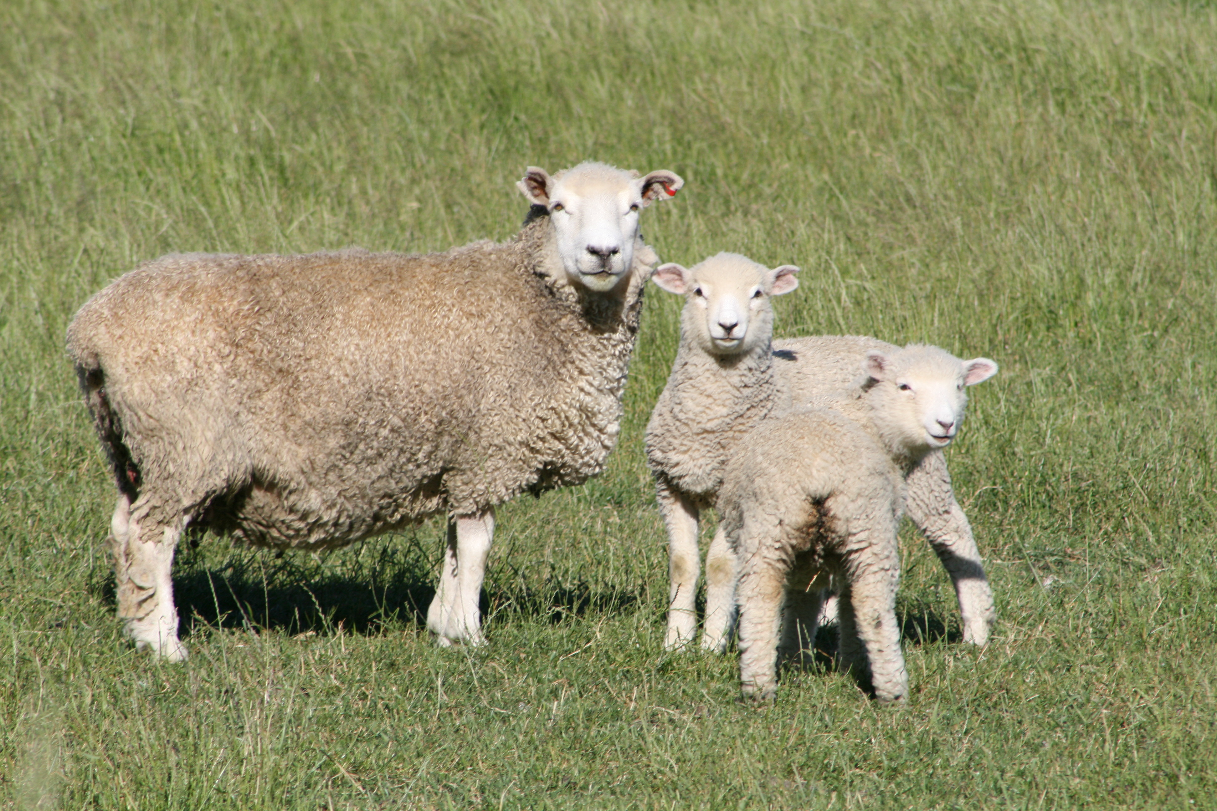 Ewe with two lambs, New Zealand